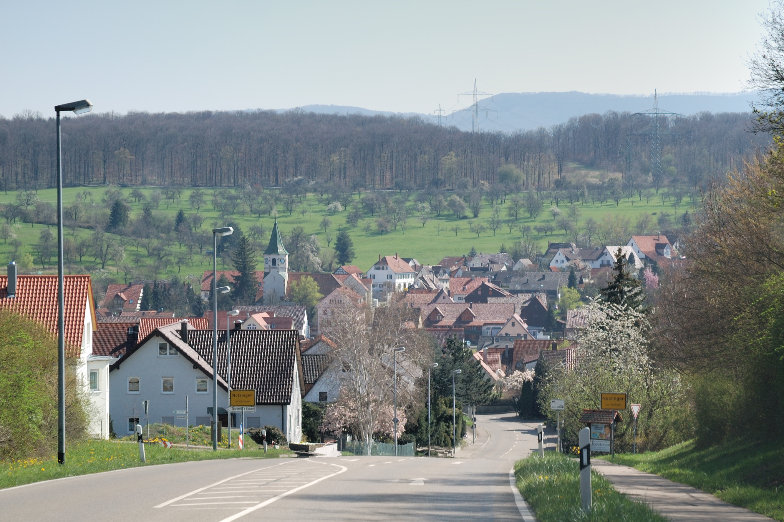 Northern view of Notzingen, Germany.